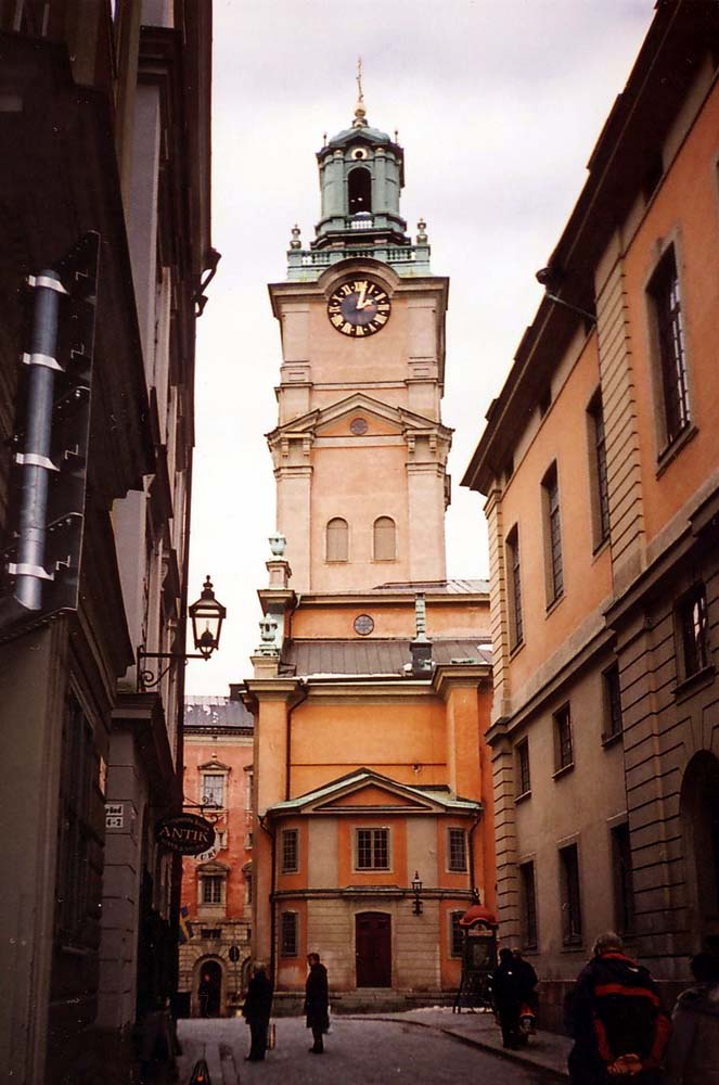 Stockholm Cathedral Storkyrkan, as released by image creator RistessonPlace: Stockholm, Sweden